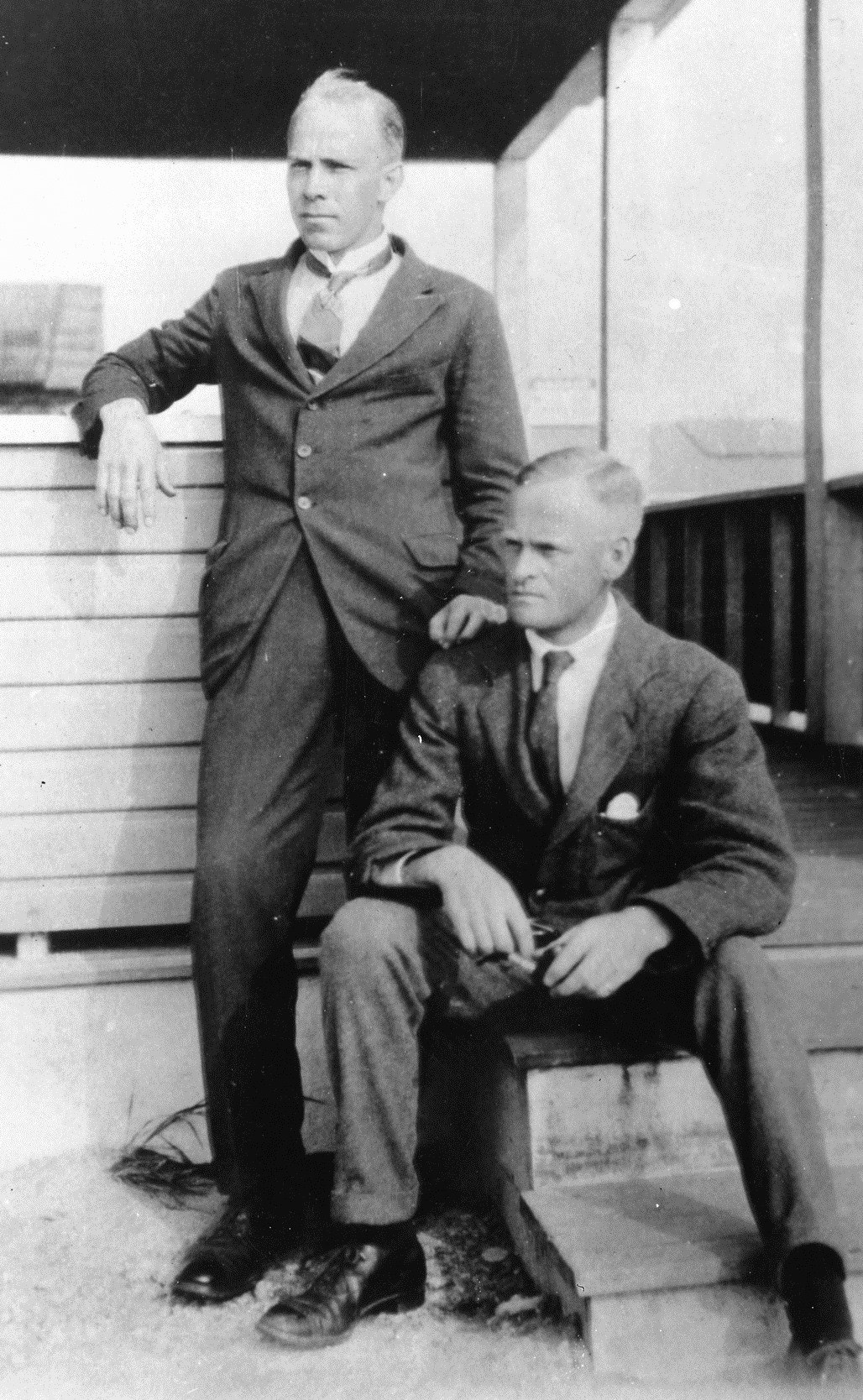 Raymond Arthur Dart (1893-1988) and Joseph Lexden Shellshear (1885-1958) Australian-born anatomist and paleoanthropologist Raymond Arthur Dart (1893-1988) was a professor and dean at the University of Witwatersrand, Johannesburg, South Africa, 1925-1943; Australian Joseph Lexden Shellshear (1885-1958) worked with Dart on research on the development of the peripheral nervous system, and was on anatomy faculty at University of Hong Kong, 1923-1936, and University of Sydney, 1937-1948. This photograph was probably taken when Dart and Shellshear visited the Marine Biological Laboratory, Woods Hole, Massachusetts, in 1921 Full description